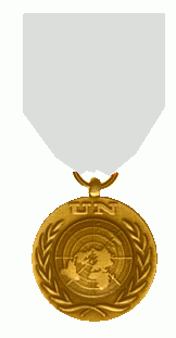 UN Peacekeeping Medal Generic on a grey generic ribbon